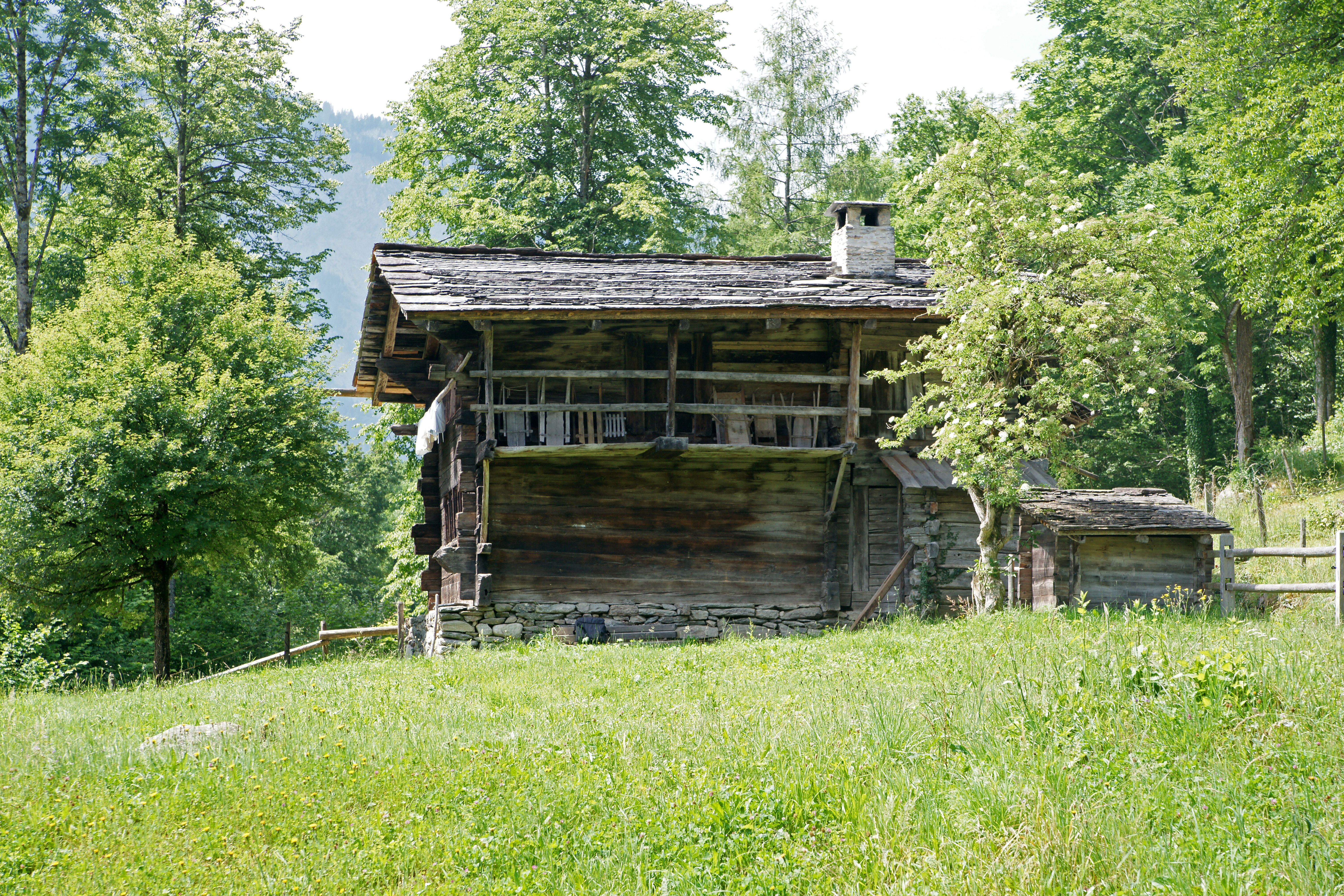 Swiss Open Air Museum Ballenberg: Wohnhaus von Blatten / VS (1568)